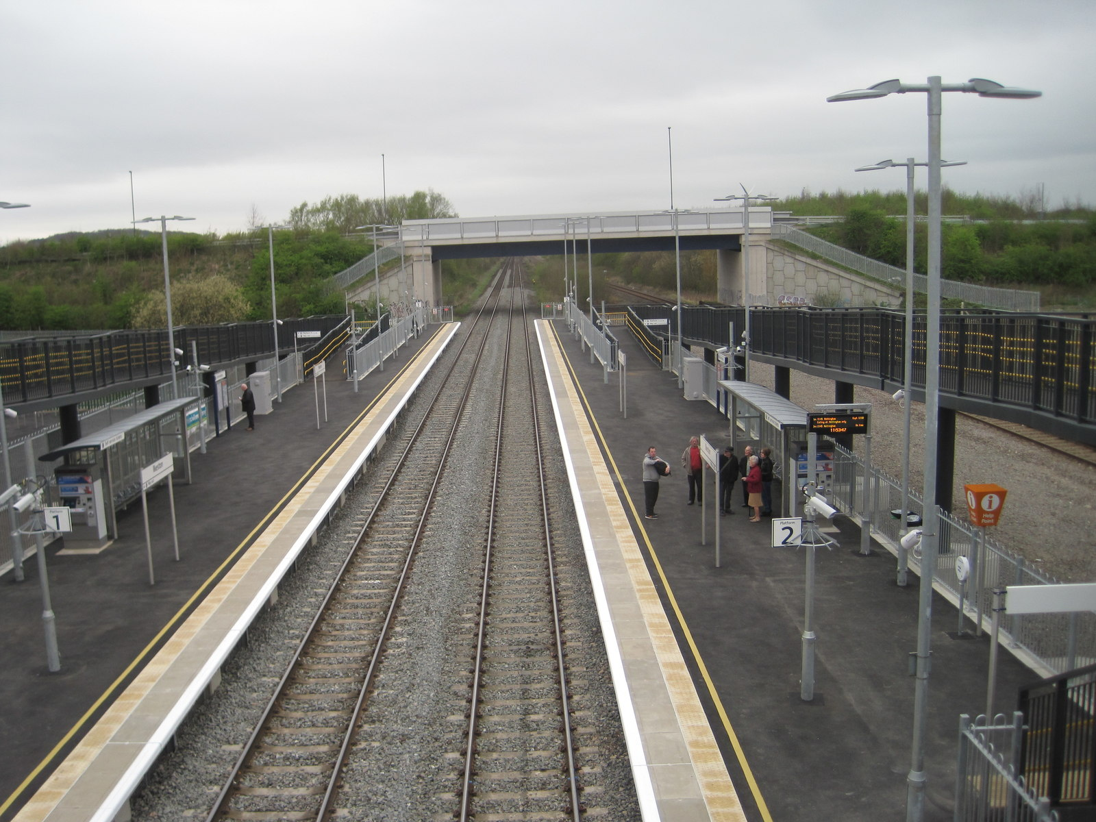 Opened in 1870 by the Midland Railway on what is now the line from Nottingham to Sheffield, this station was known as 'Ilkeston Junction and Cossall' from 1890 until closure in 1967. It was later demolished. It was rebuilt and reopened as Ilkeston in 2017 by Network Rail.